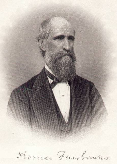 [Engraving by Metropolitan Publishing and Engraving Co., Boston] Source: Gazetteer of Caledonia and Essex Counties, VT; 1764-1887, by Hamilton Child, May, 1887, page 329.